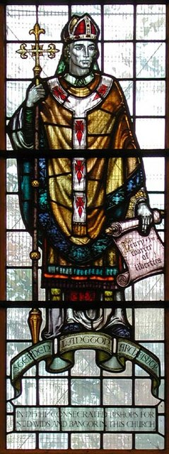 Stained glass window in St Mary's parish church, Staines, Middlesex (now Surrey)